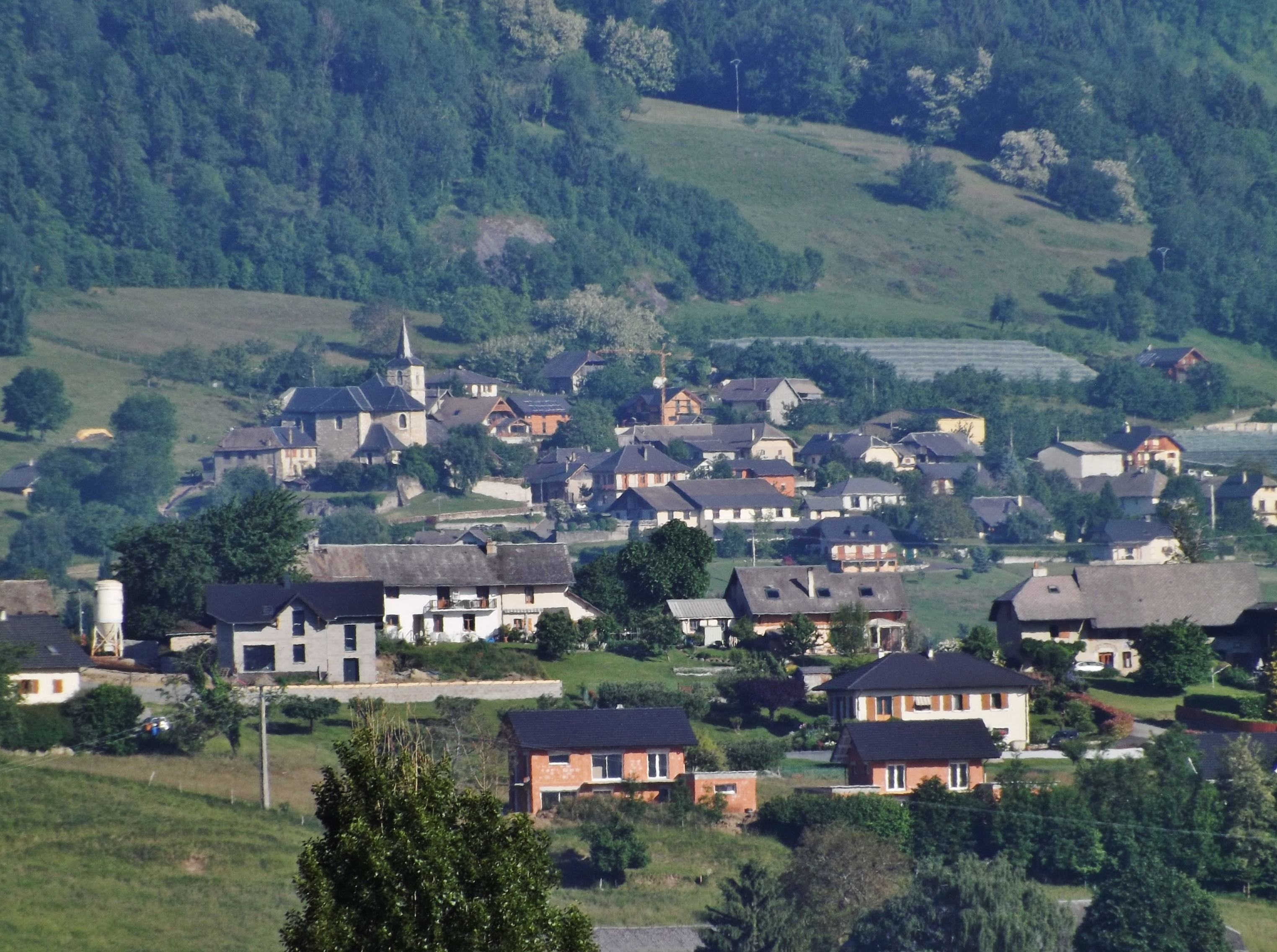 Panoramic sight, from the heights of Saint-Cassin, of the French commune of Saint-Sulpice, above Chambéry in Savoie.